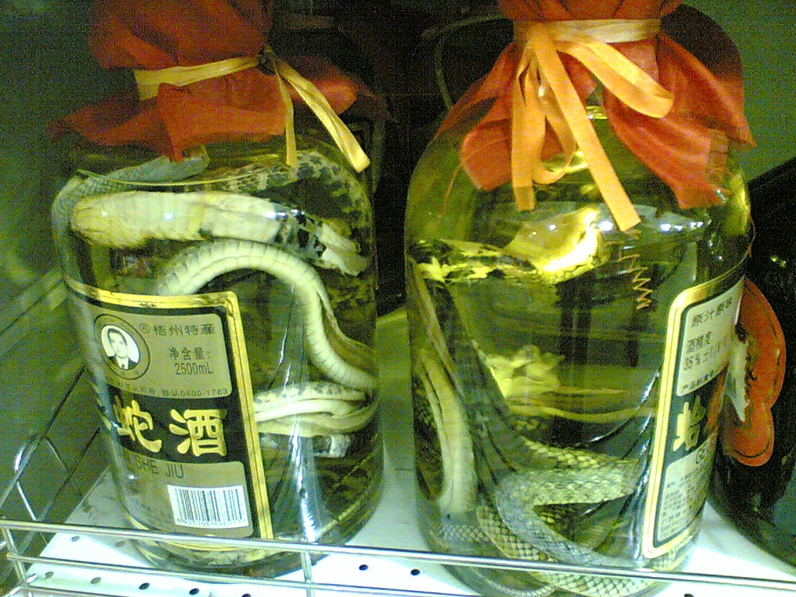 China Shenzhen - Snake Liquor for sale in grocery store - July 2005 Also on